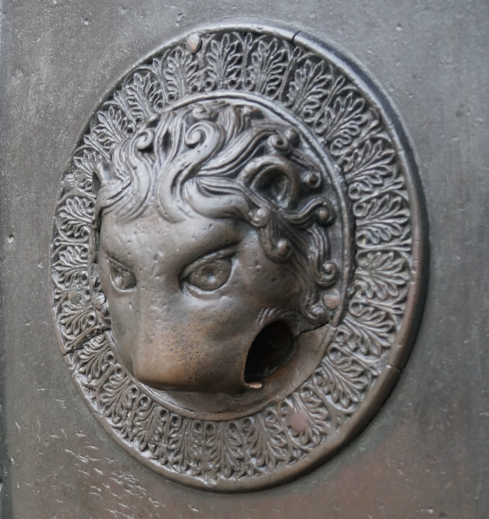 Lion's head drawer of the main portal of the Aachen Cathedral. 43 quintals heavy bronze doors were cast around 800 in Aachen and were in the sixteen corner of the Cathedral until the year 1788 between Westwork and Oktogon. The Aachen Cathedral was inducted in 1978 as first German cultural monument under no. 3 in the World Heritage list of UNESCO. The foundation stone for the construction of the Carolingian renaissance took place in the year 796.